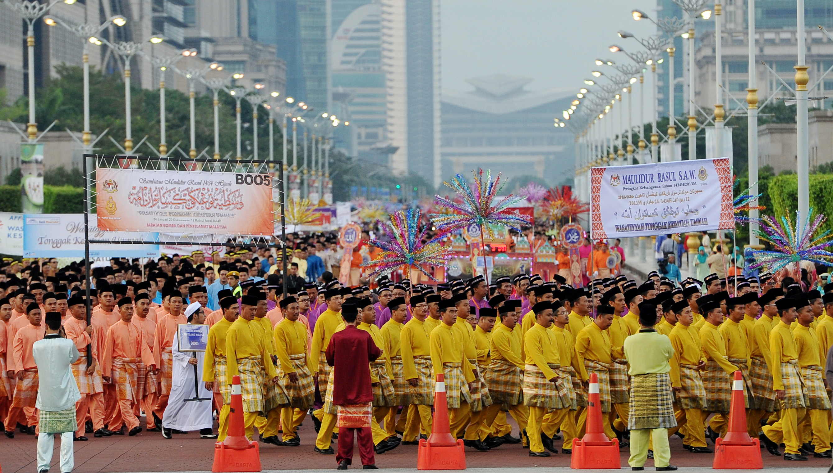 Putrajaya,24/01/2013. Malaysian Muslims participate in a Maulidur Rasul parade in Putrajaya, aslo known as Mawlid the birthday of Prophet Muhammad at Putrajaya Putra Mosque..Pix Firdaus Latif